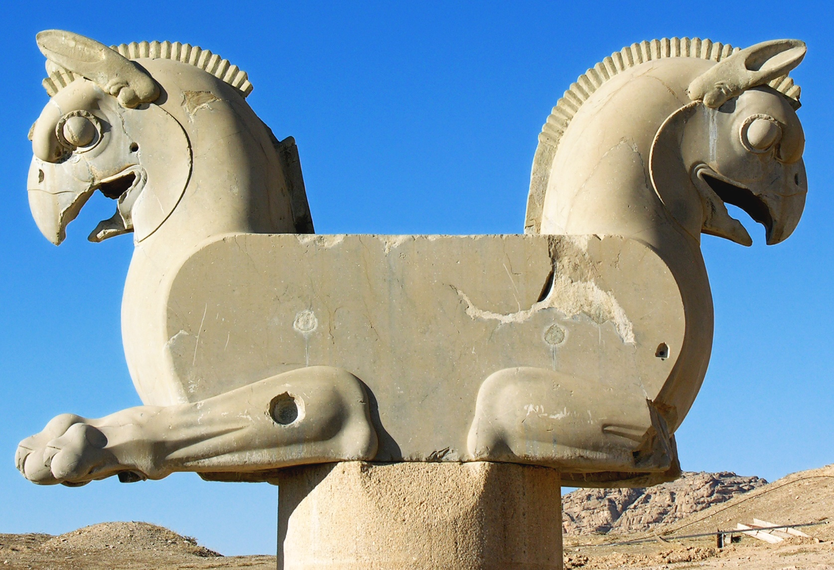 Iran